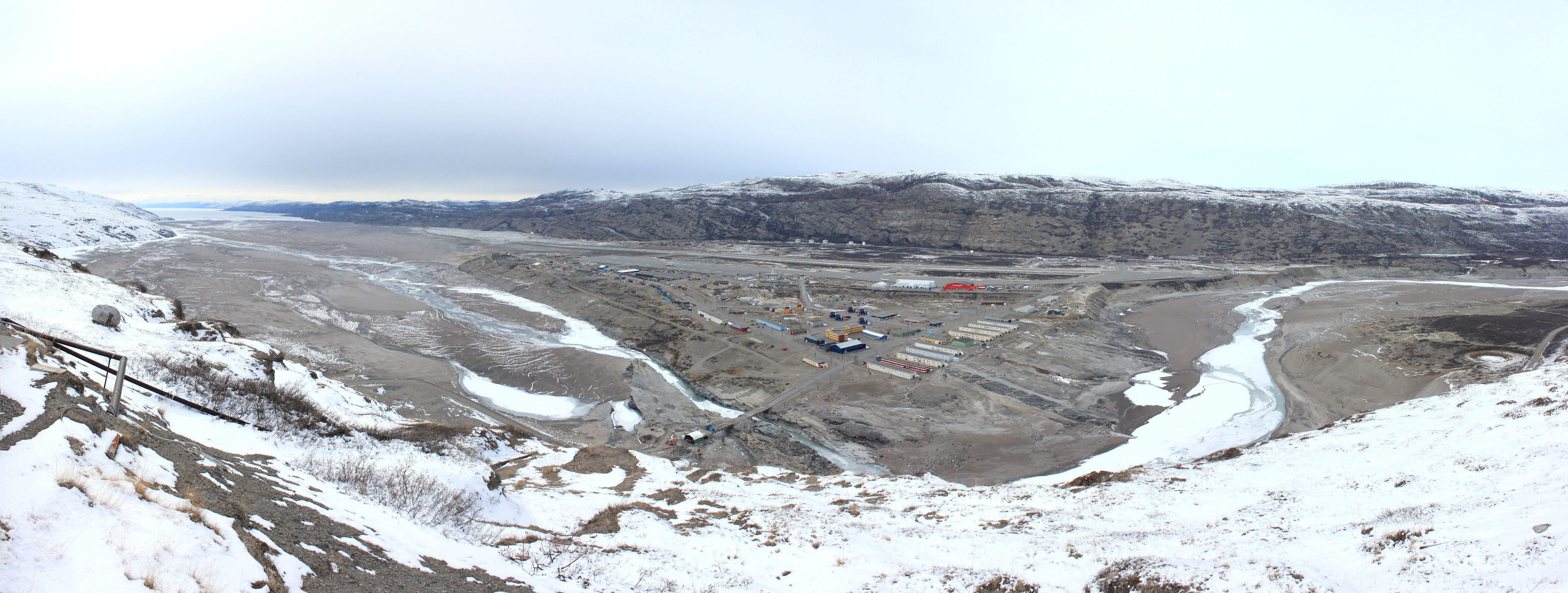 Panorama of Kangerlussuaq from Black Ridge